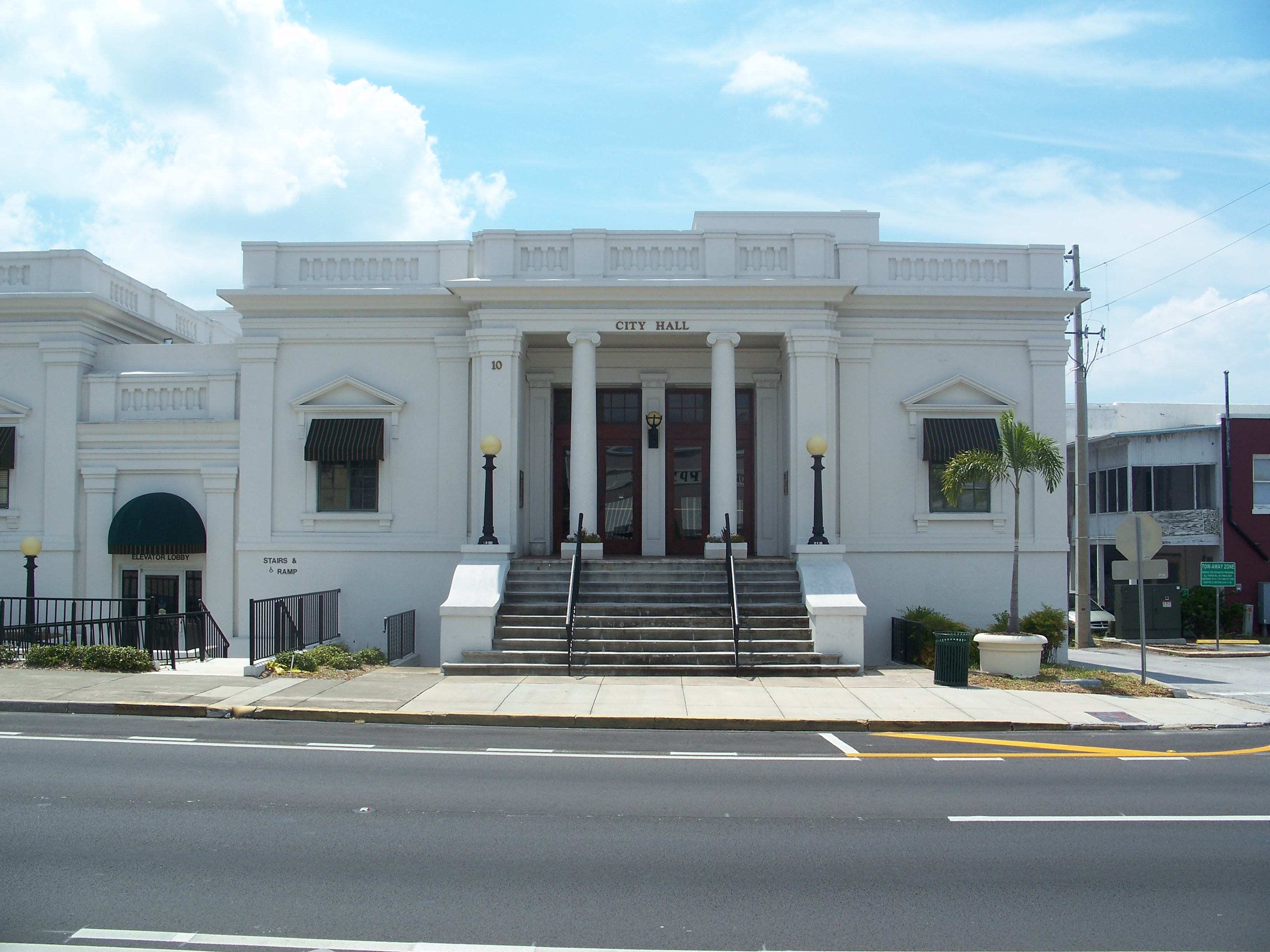 Eustis, Florida: City hall in the historic district.